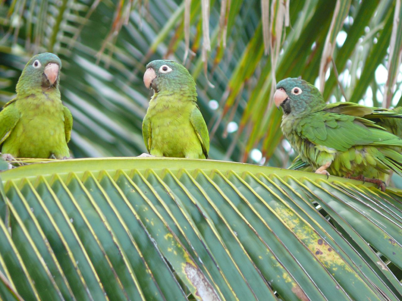 Feral Blue-crowned Parakeets (also knows as Blue-crowned Conure and Sharp-tailed Conure) in Miami, Florida, USA.